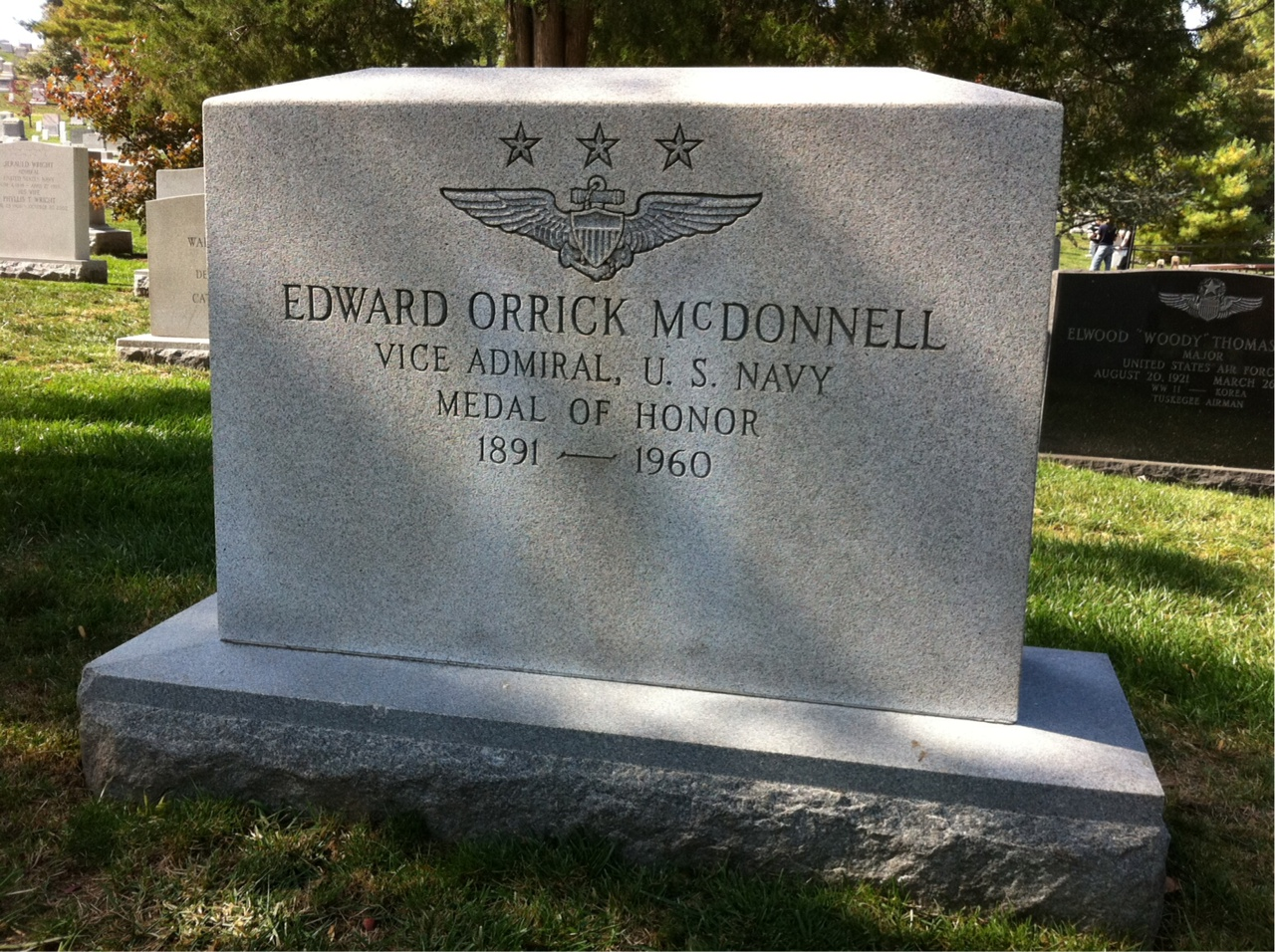 Grave of Edward O. McDonnell at Arlington National Cemetery